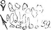 Outline of the dolmen Schadewohl 1, Saxony-Anhalt